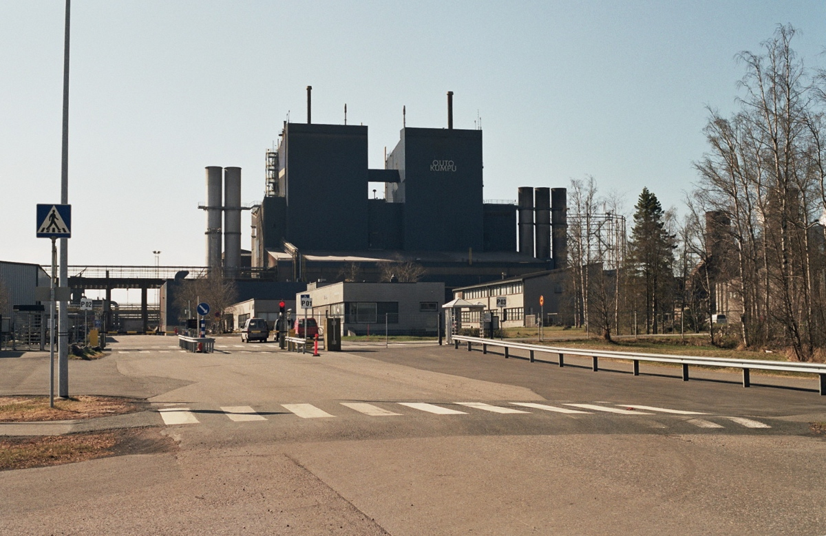 The main gate of the Outokumpu factory in Röyttä, Tornio, Finland. Seen behind the gate is the ferrochrome plant of the factory. (The image has been rotated and cropped somewhat, as the original photo was rather tilted.)